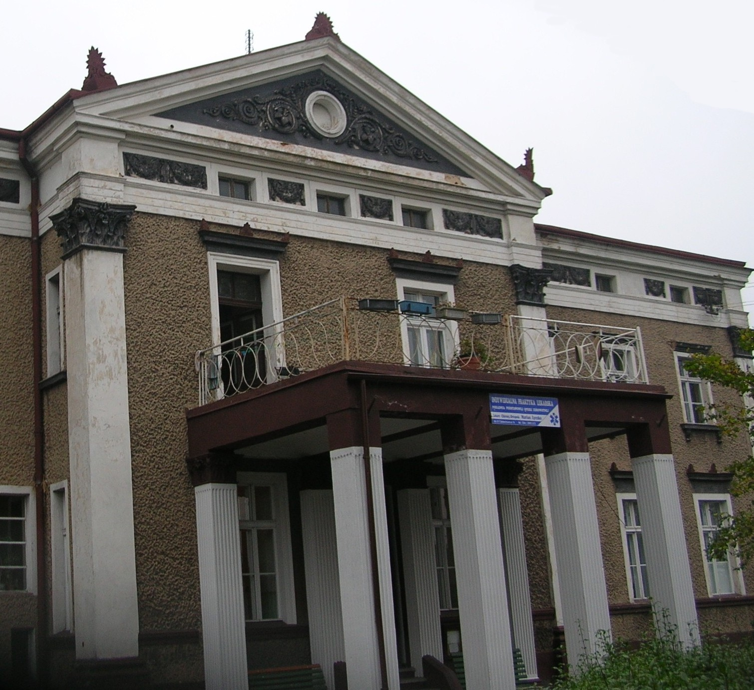 Manor house in Zdziechowice, Poland.